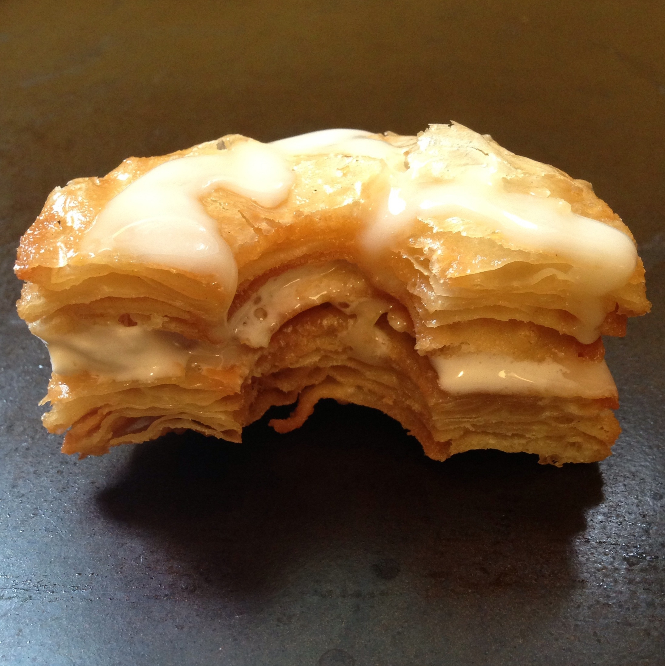 Homemade cronut.